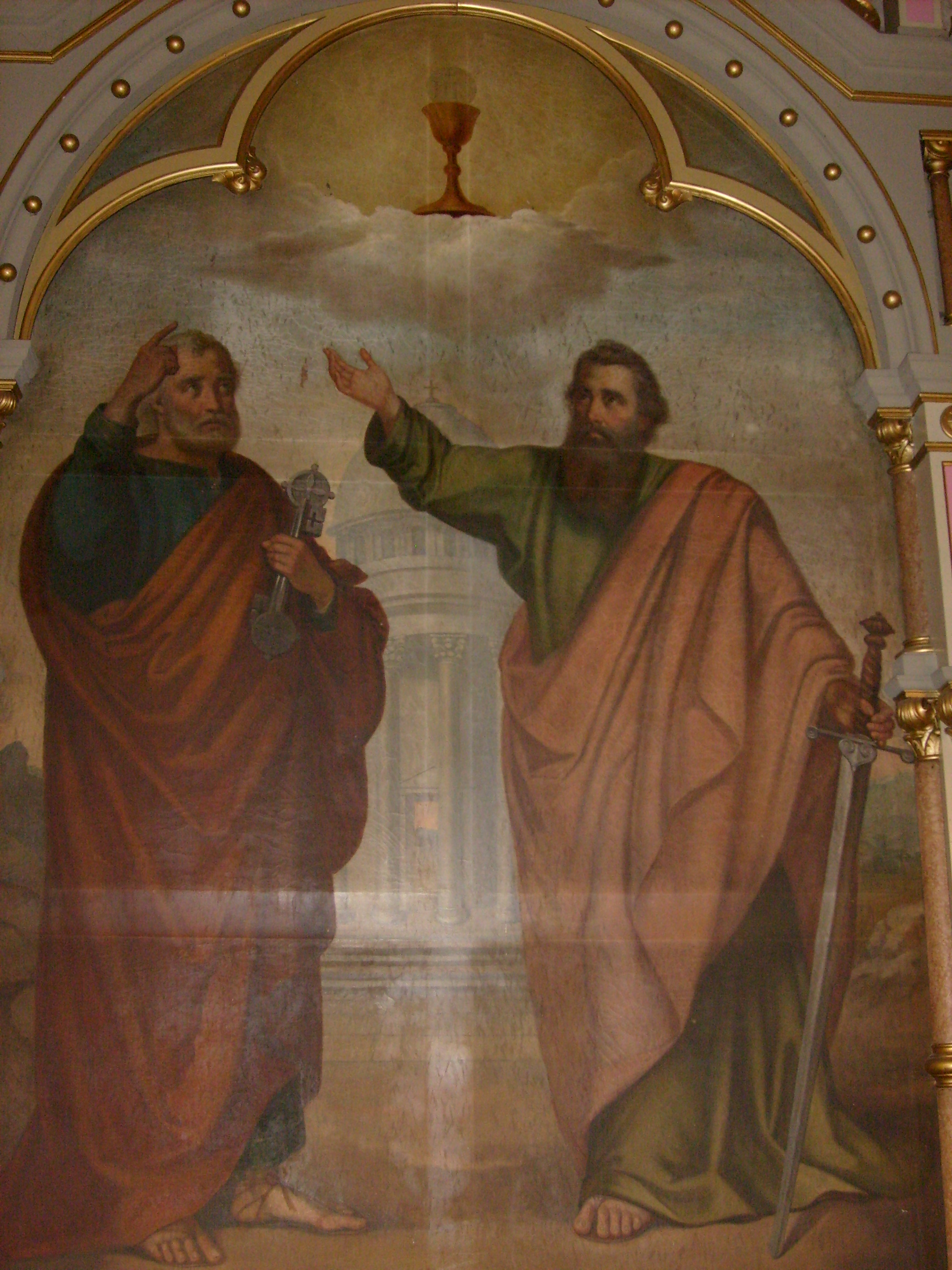 Saint Péter and Pál altarpiece depicting apostles in the church of Sajónémeti.